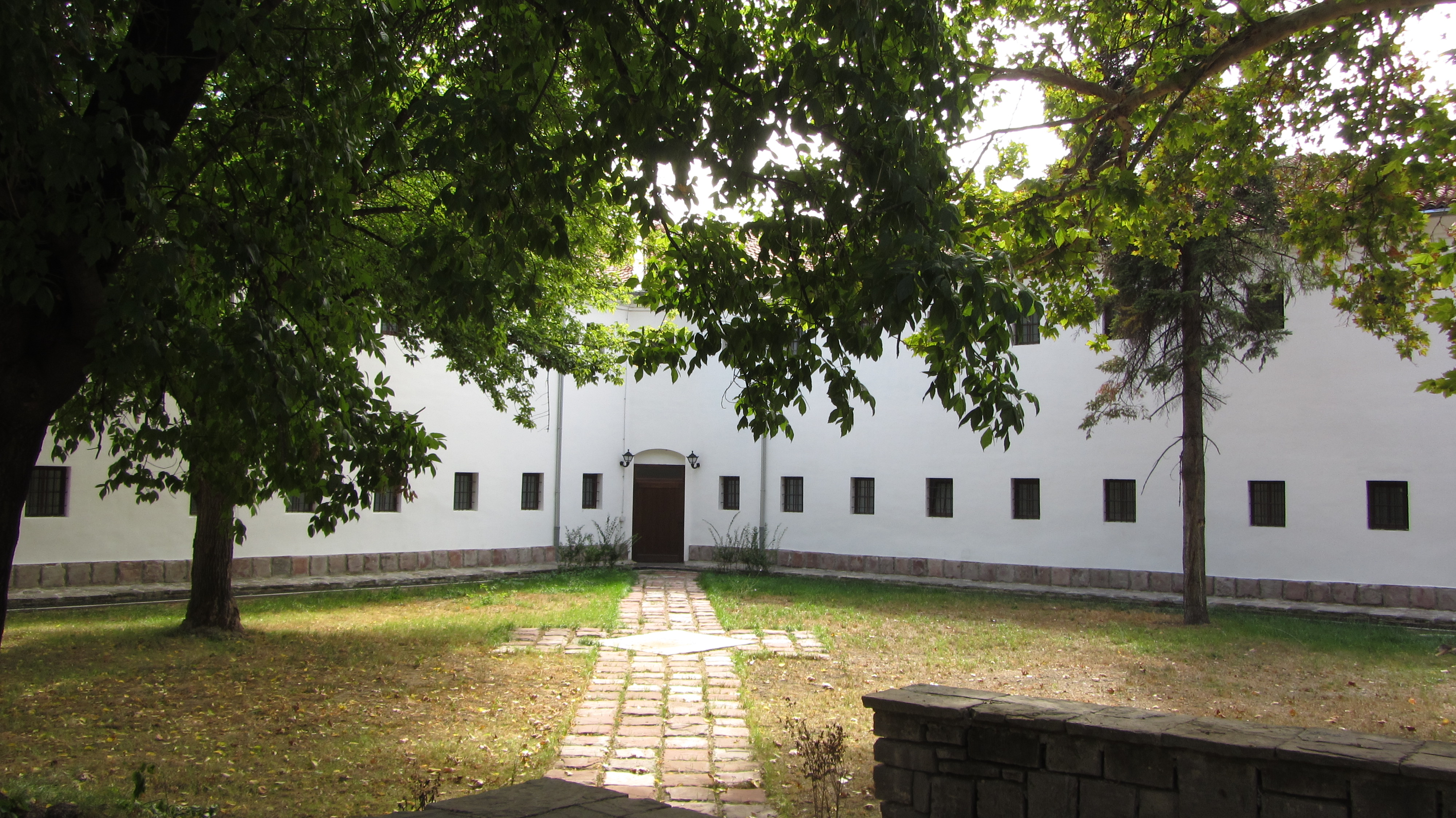 Museum "Cross barracks"